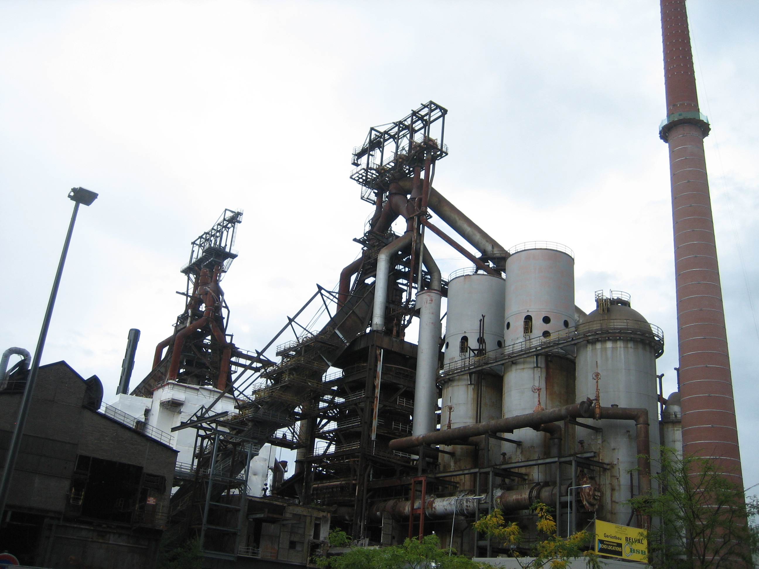 Blast furnace A and B in Belval, Luxembourg; Cultural heritage monument (inventaire supplémentaire) since 18 Juli 2000.